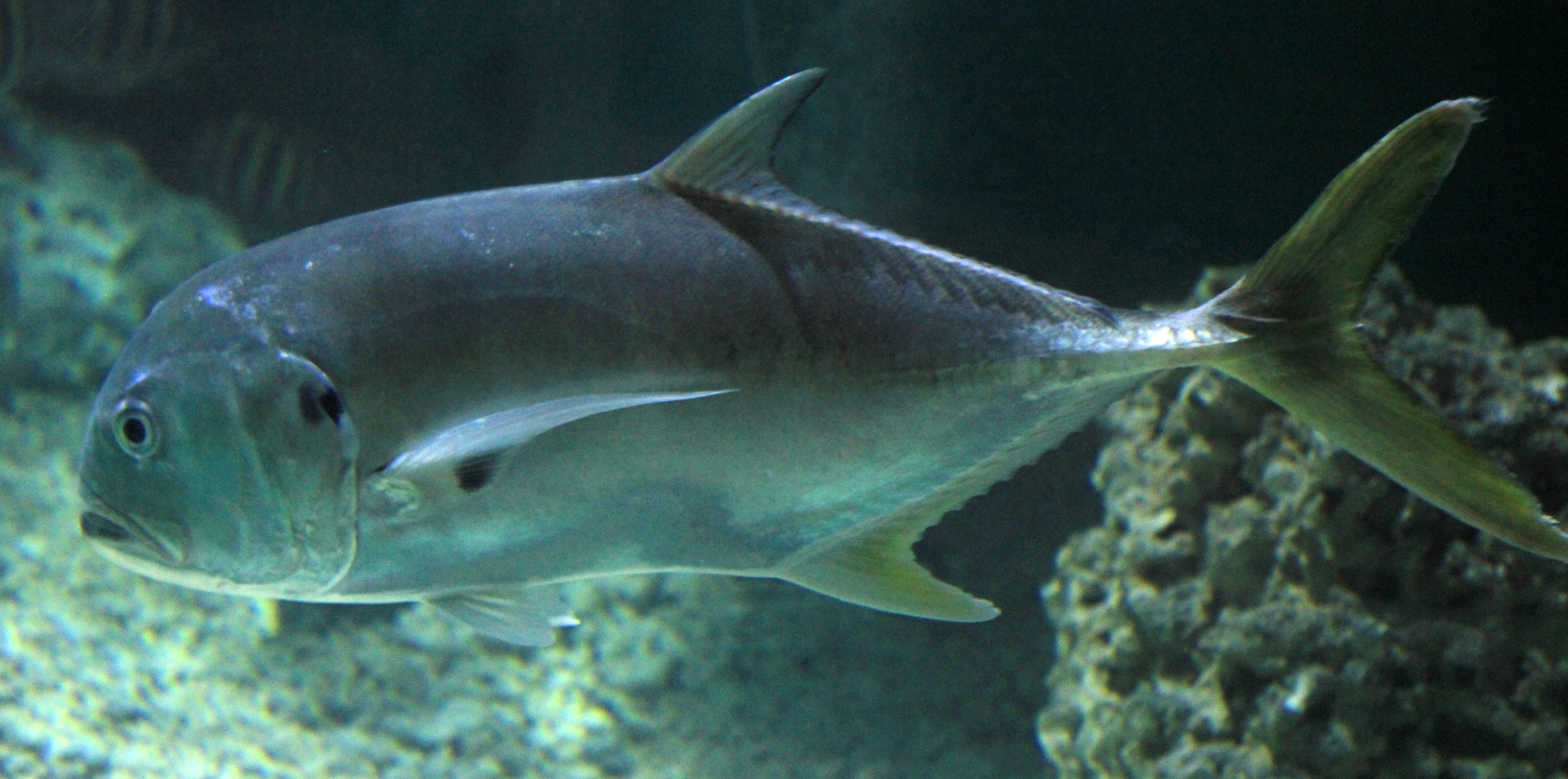 Different types of fishes A common predatory Jack. Caranx Hippos.